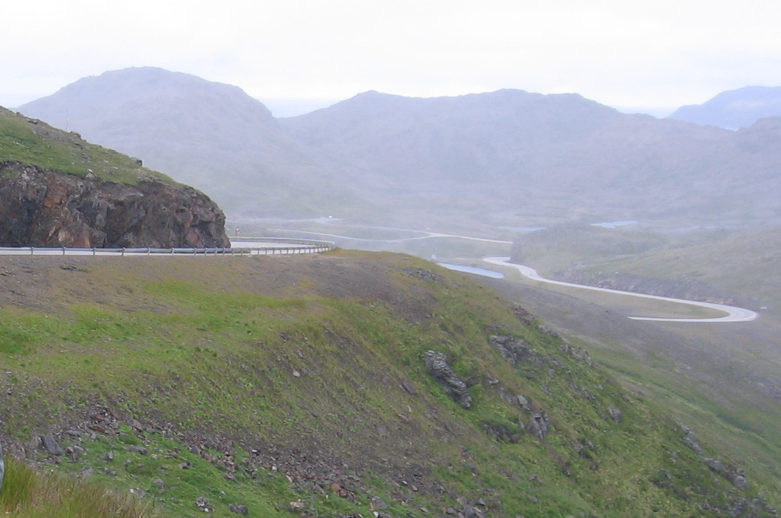 European route E69 on Magerøya island, Norway